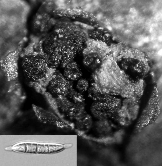 Phragmodiaporthe padi Lar.N. Vassiljeva